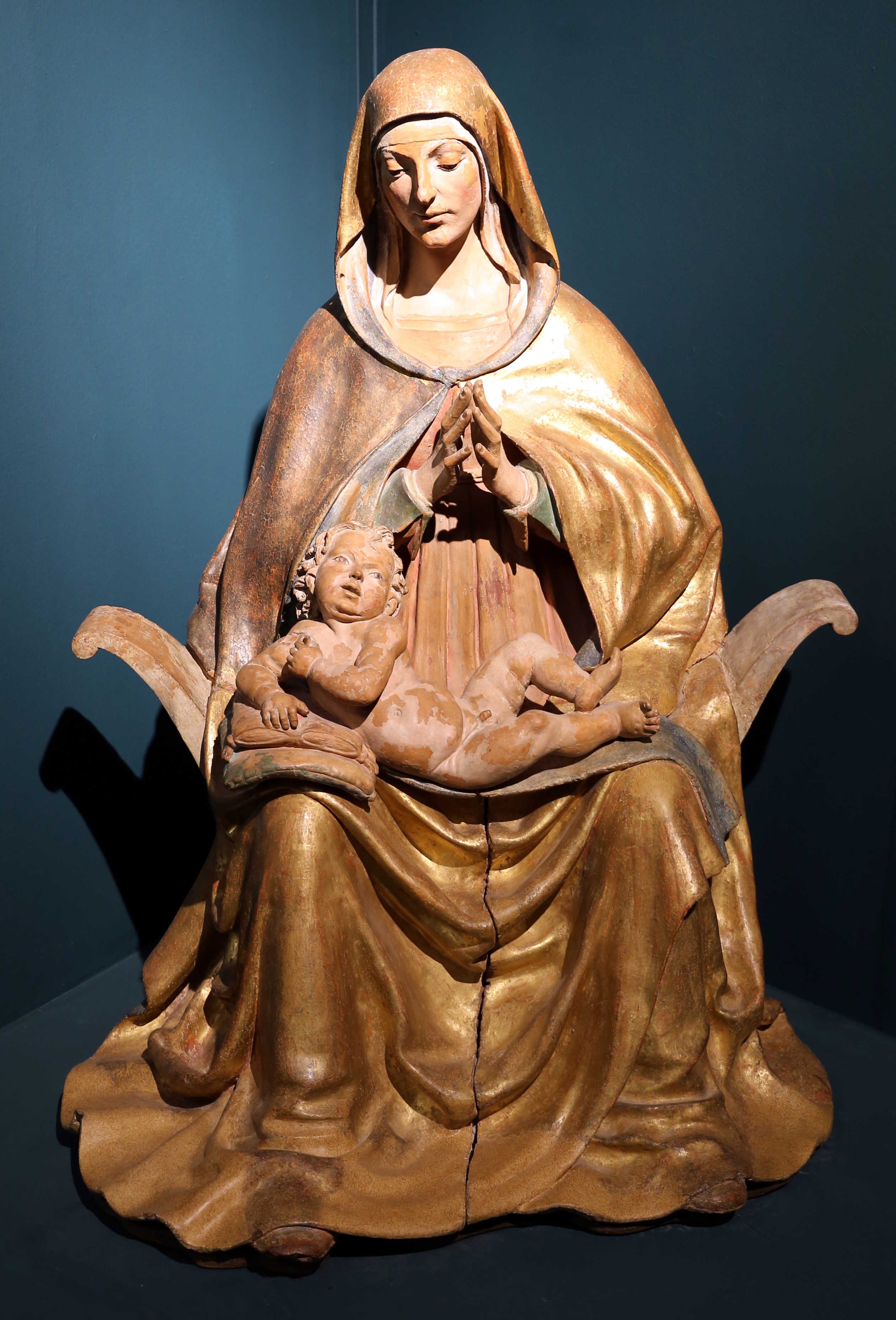 Misericordia exhibition in Senigalllia (2016)